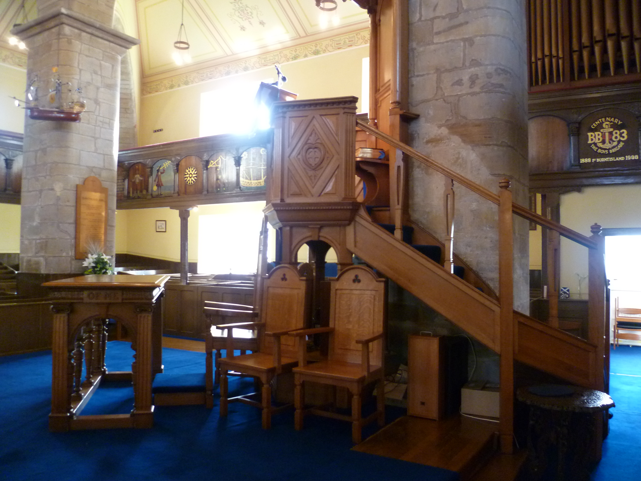 Interior of Burntisland Kirk